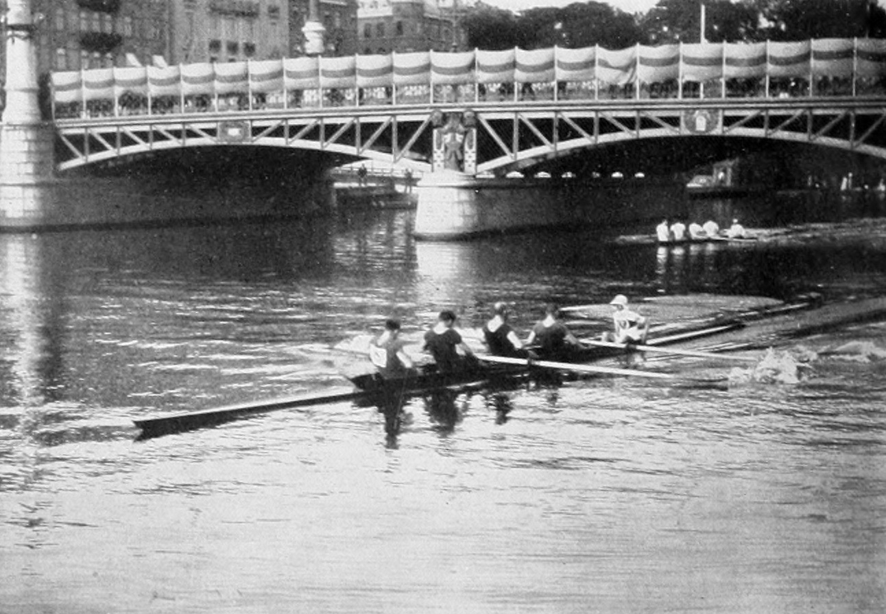 The German coxed fours Ludwigshafen beating the British Thames R. C. (under the bridge) in the final of the 1912 Summer Olympics